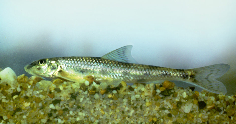 Kessler's gudgeon (Romanogobio kesslerii) from the Hernad River, Hungary